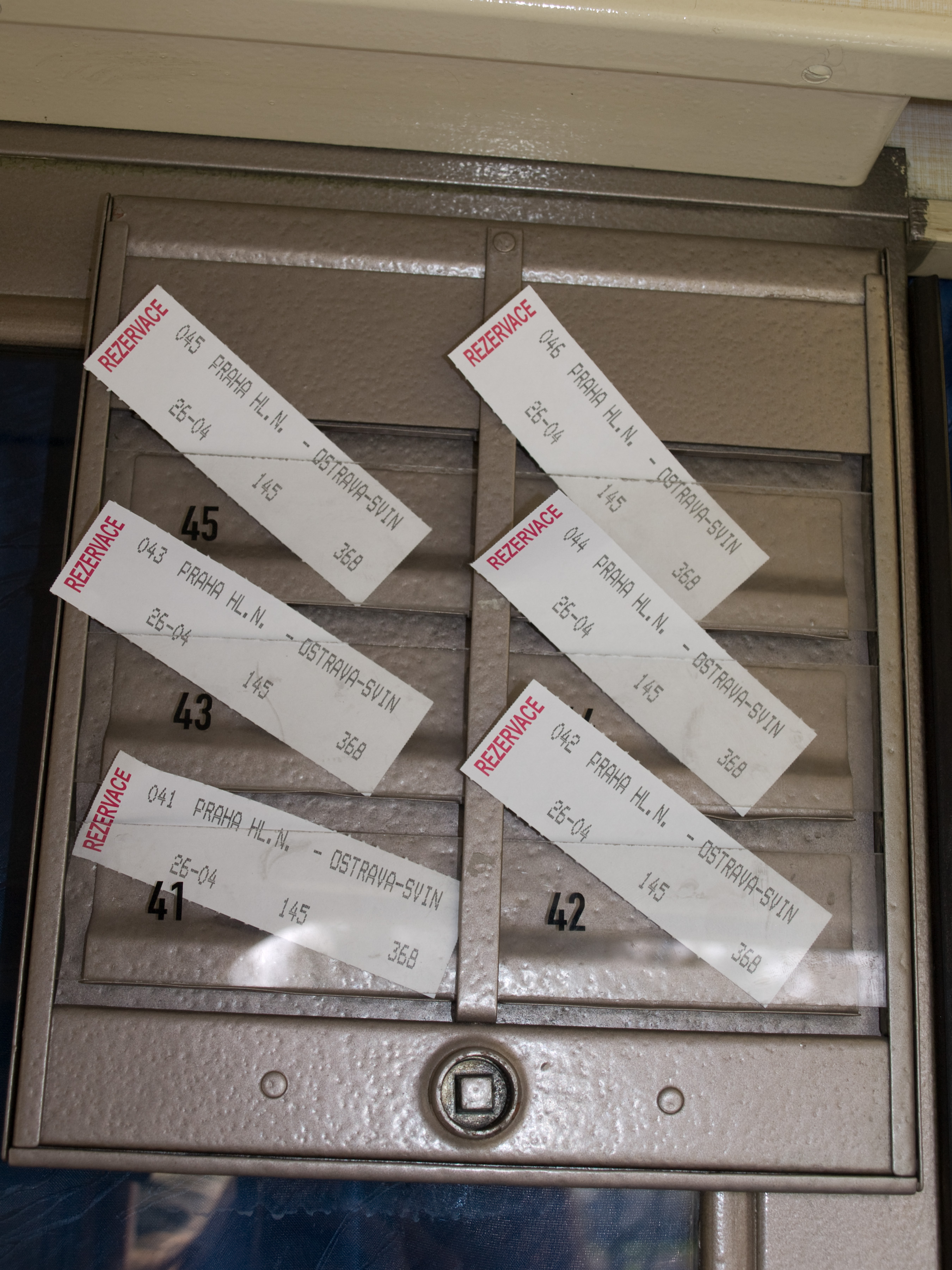 Notification of seat reservation tickets